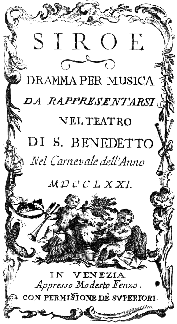 Giovanni Battista Borghi - Siroe - titlepage of the libretto - Venice 1771